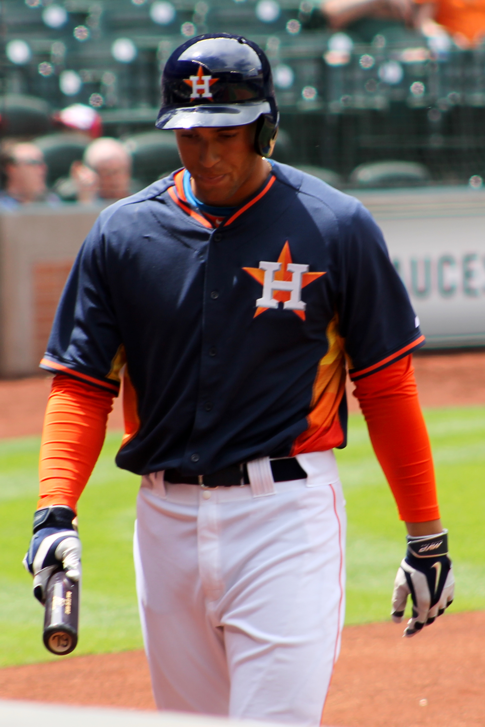 Baseball player George Springer plays in a preseason game for the Houston Astros in March 2014.